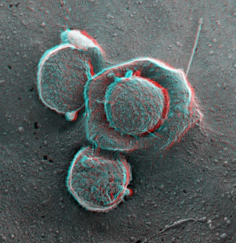 John Heuser's electron micrograph of vaccinia virus